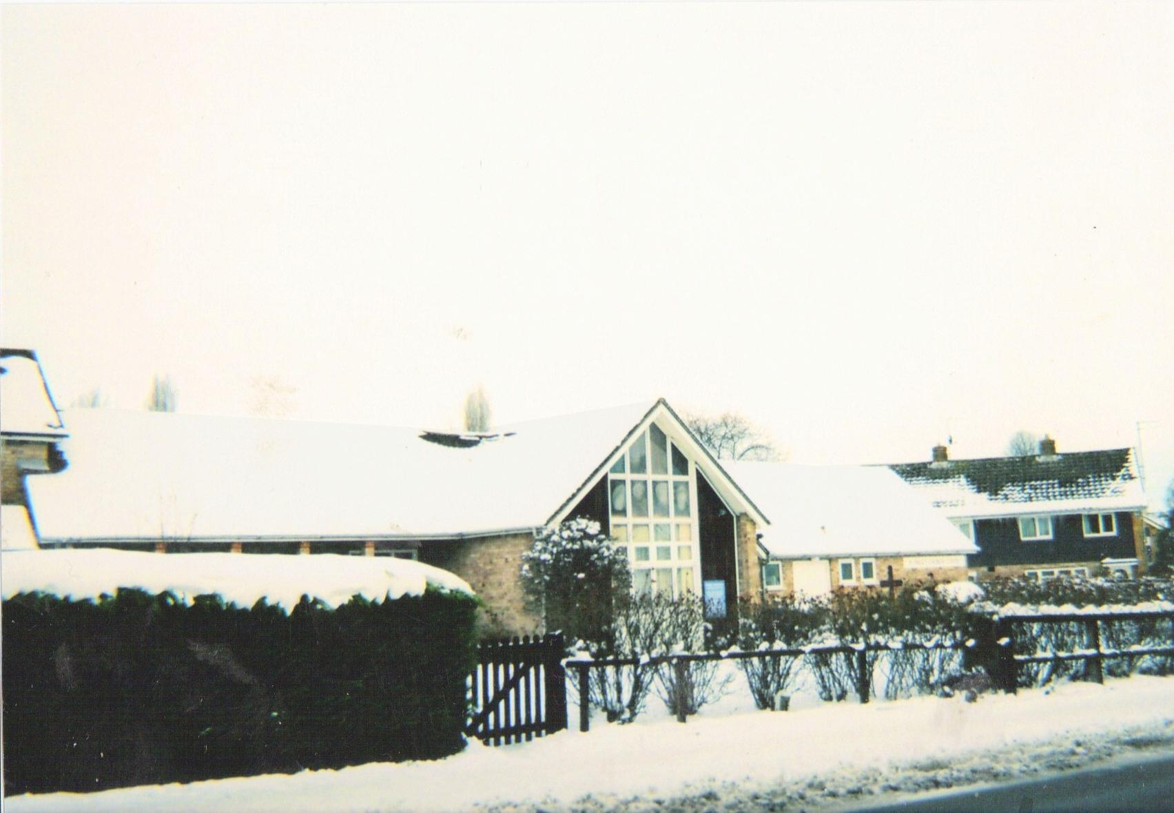 St Paul's Church Centre, Prescott Avenue, Neithrop, Banbury, Oxfordshire seen from the southwest in snow in 2010